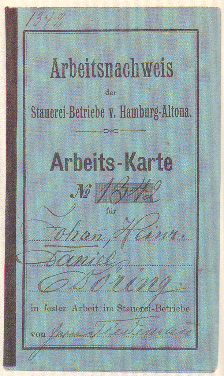 Working card of Johann Döring, docker’s union leader, issued by the private employment agency of stevedore companies in Hamburg & Altona